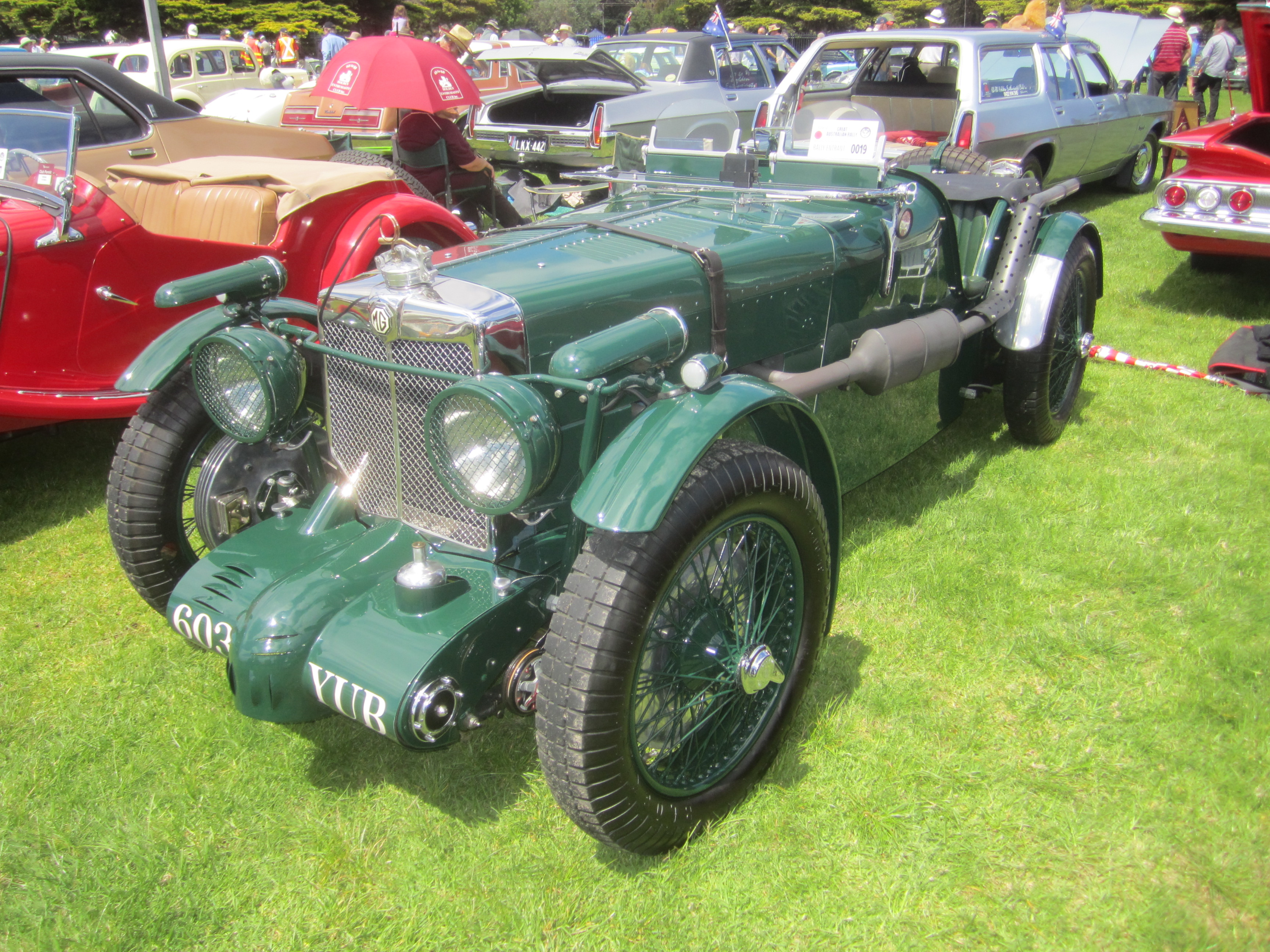 Recreation by Peter Gregory of a 1933 model MG K3 Mille Miglia spec, license "603 YUB".[1] It may be similar to the MG K3 that participated in 1934 Mille Miglia.This picture from Flickr had the original caption: "Correct me if I am wrong but I think this is a K-type MG, built from 1932-34, there were 3 versions; the K1 got a long chassis and was a 4 seater. the K2 got a shorter chassis and was a 2 seater. the K3 was a racing versions on the shorter chassis and got a supercharger. Engine; 1271cc 6 cyl from the Wolseley